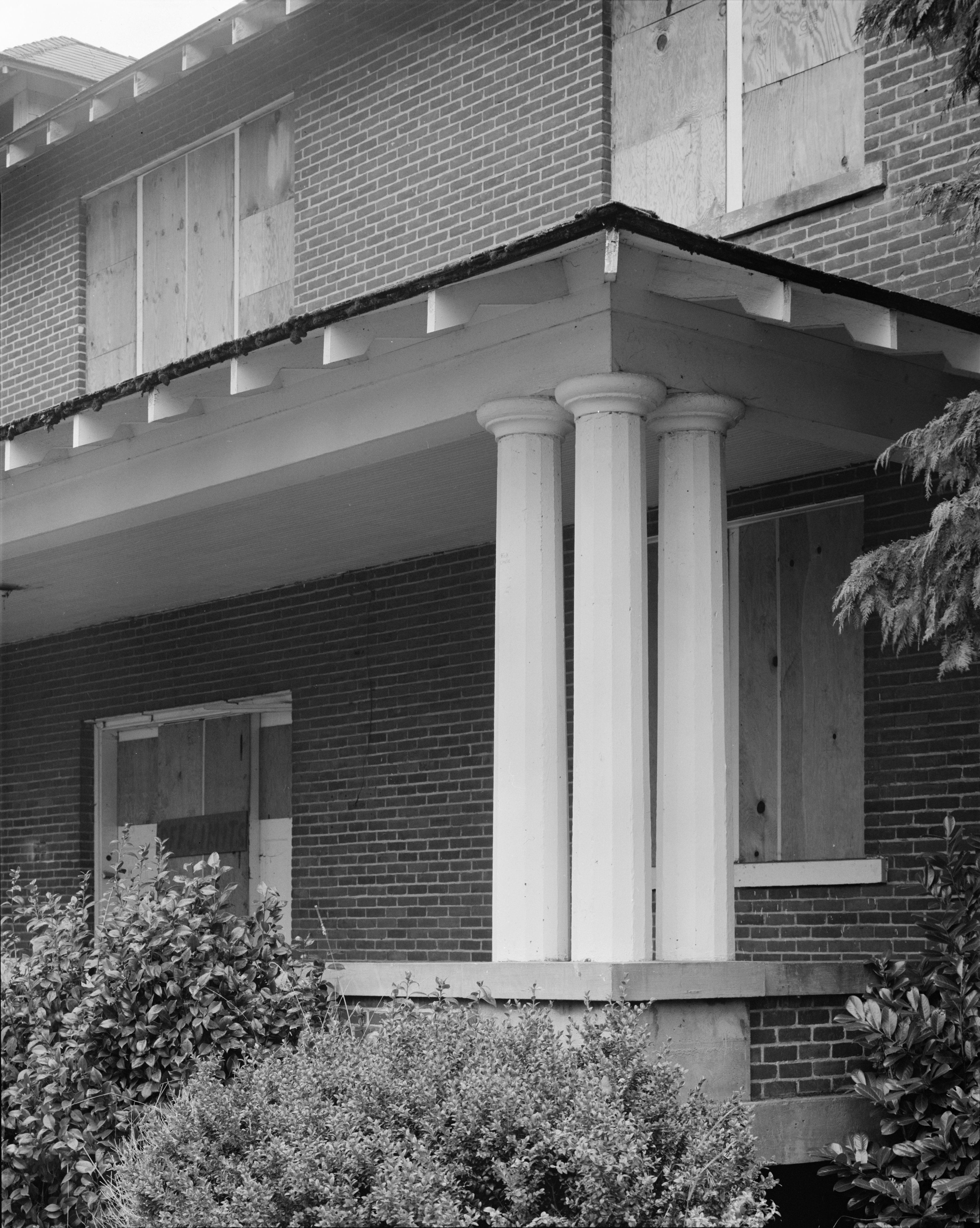 Chemawa Indian School, Hawley Hall, 5495 Chugach Street Northeast, Salem, Marion County, OR CALL NUMBER: HABS ORE,24-SAL,1L- CREATOR: Historic American Buildings Survey, creator NOTE: Survey number HABS OR-129-L DIGID: LOC card: "5495 Chugach St., N.E. Brick with concrete and wooden trim, rectangular with rear ell 90' (five-bay front) x 48', wing 32' x 54', connector 13' x 14', two-and-a-half stories hip roof with exposed rafters at eaves, hip dormers, three-bay hip-roof entrance porch with paired columns; dormitory, pressed metal ceilings. Built 1924; alterations to provide home economics classrooms, n.d; second floor altered for science lab, 1966; demolished, 1978. 6 ext. photos (1977) 3 int. photos (1977). Also see Chemawa Indian School (OR-129). Card prepared 1979" Author information not found, but presumed to be Steve Viale.